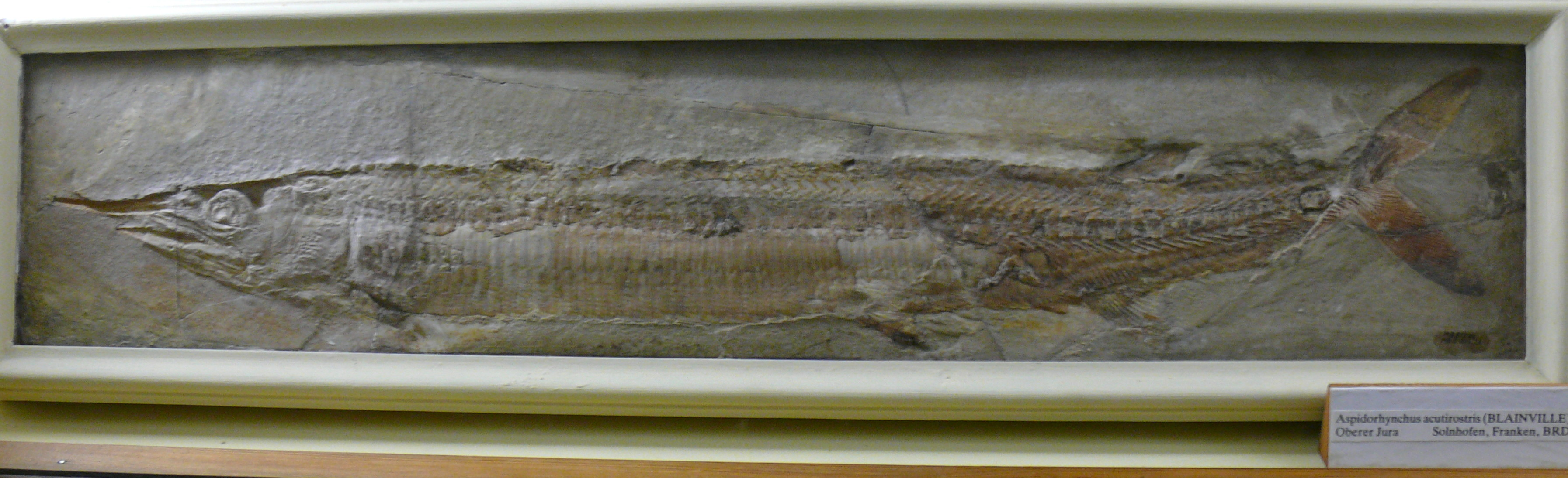 Aspidorhynchus acustirostris (Blainville), Oberer Jura, Solnhofen, Germany